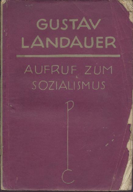 Book Gustav Landauer: Aufruf zum Sozialismus. Revolutionsausgabe. 2. vermehrte und verbesserte Auflage, Cassirer, Berlin 1919